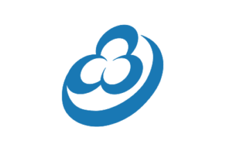 Flag of Onan Shimane